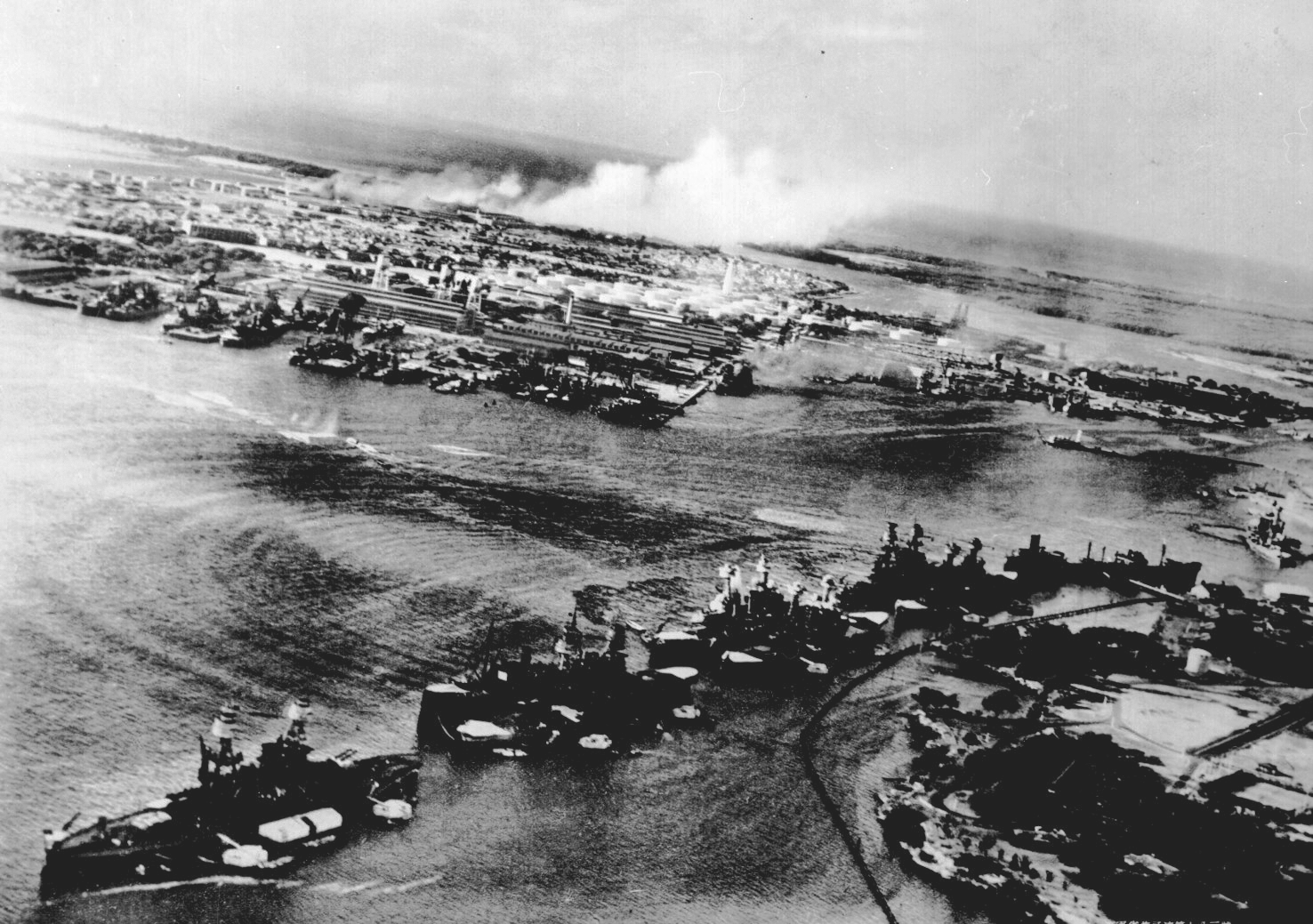 "Pearl Harbor, T.H. taken by surprise, during the Japanese aerial attack. USS WEST VIRGINIA aflame." Captured Japanese photograph.